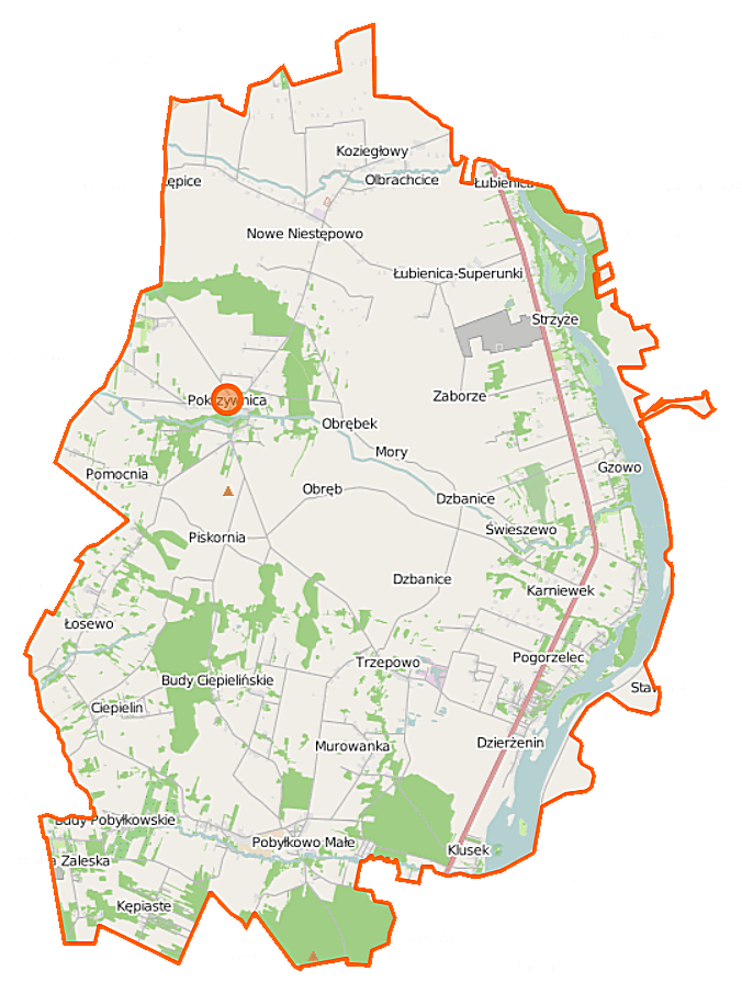 Map of Gmina Pokrzywnica, Poland This map of Pokrzywnica (gmina) was created from OpenStreetMap project data, collected by the community. This map may be incomplete, and may contain errors. Don't rely solely on it for navigation. Border coordinates52.682020.9609←↕→21.147352.5306